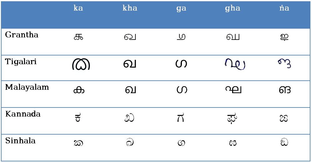 This table compares the south Indic scripts Grantha, Tigalari, Malayalam, Sinhala and Kannada